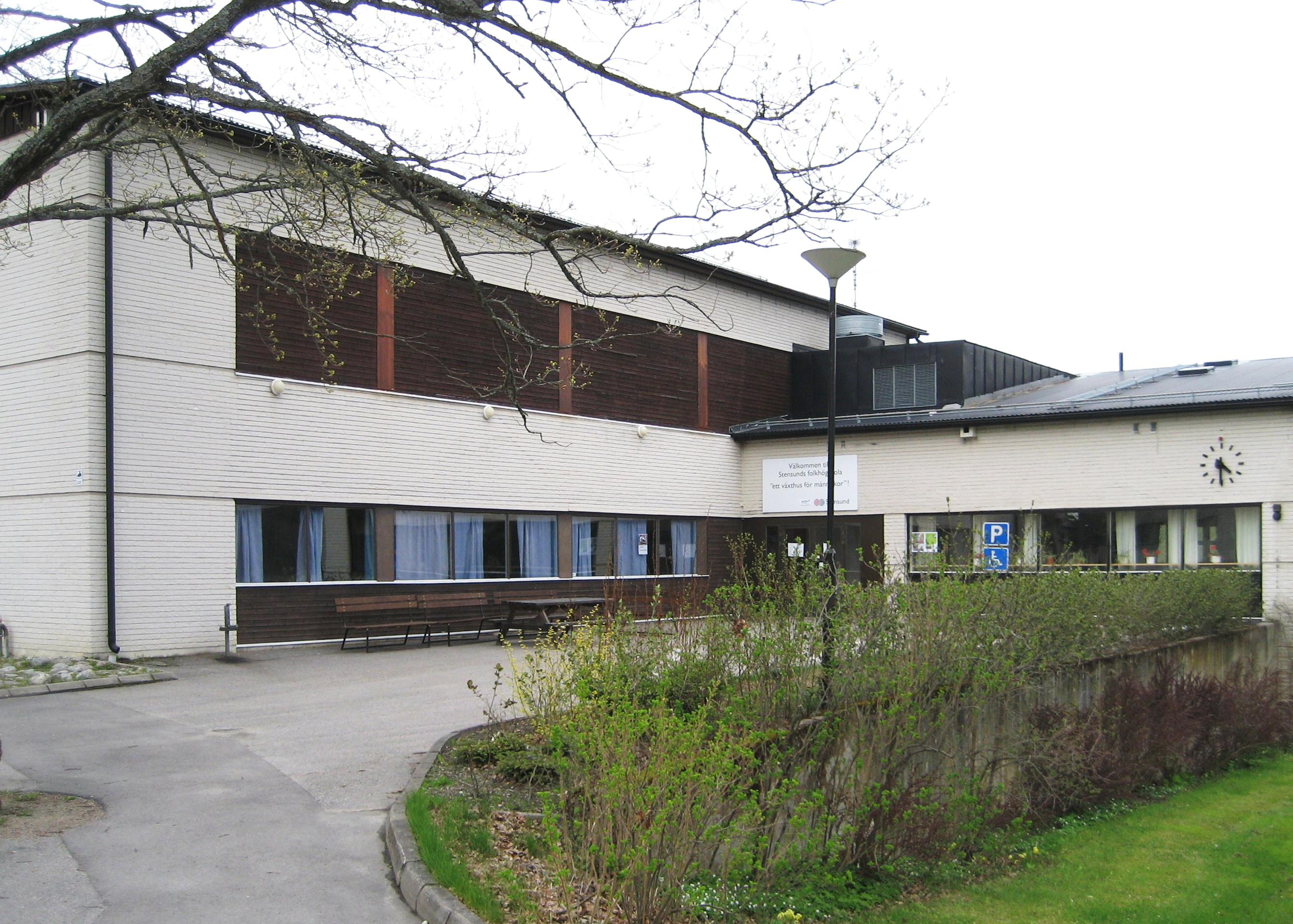 Stensunds folkhögskola, Trosa kommun, Södermanland, Sweden